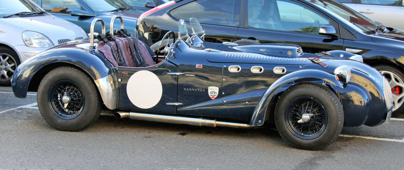 Canadian-based Allard Motor Works is building the Allard J2X MkII, a recreation that is sufficiently accurate for the official Allard registry to grant official numbering to the new cars, and is now being distributed across Europe. The original Allard J2X was built between 1951 and 1954 and used a range of American V8s, usually a Ford-Mercury Flathead (though Cadillac and Chrysler units were installed, too), coupled to a lightweight open-top body. Allard made just 83 of these original cars.